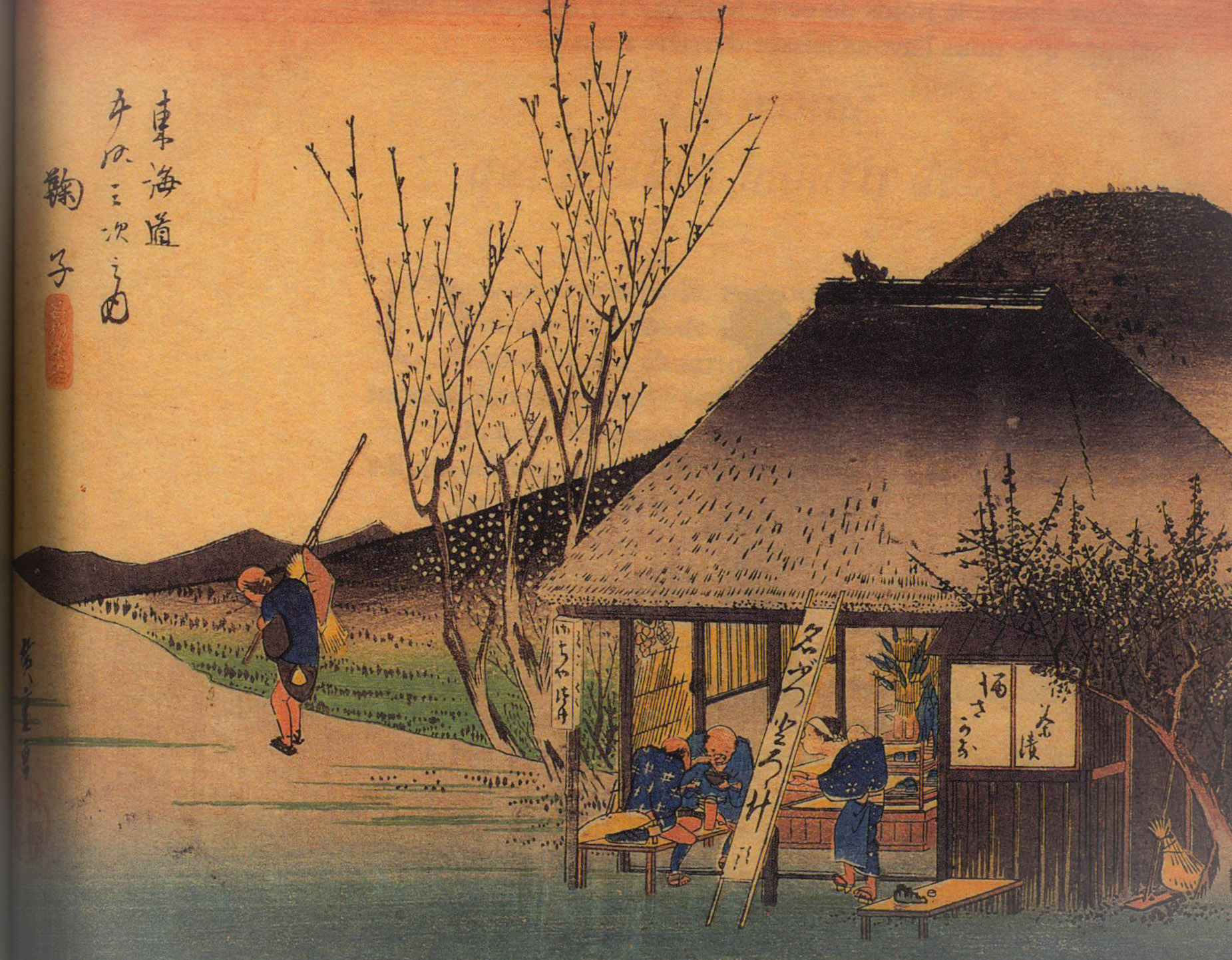 Mariko, famous tea ouse, 21st view, "The 53 relays of Tolaïdo" series, (détail)